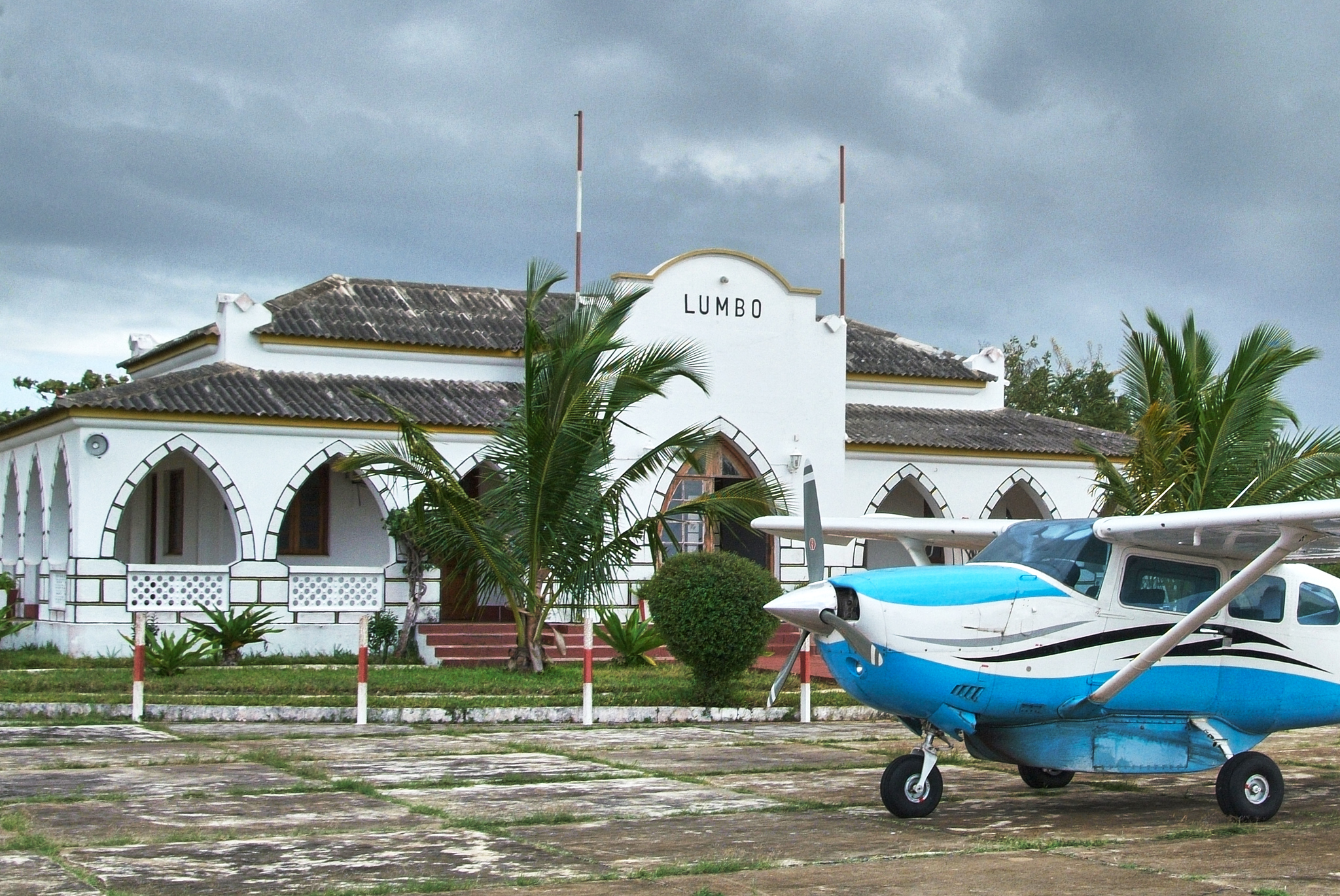 Airport Building, C206 in front